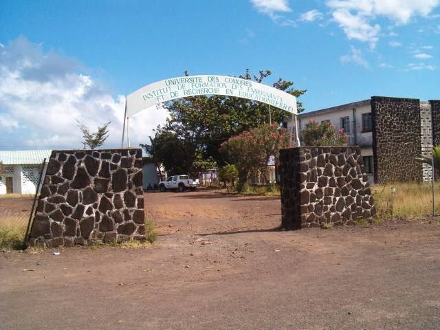 Institut de formation des enseignants de recherche en éducation